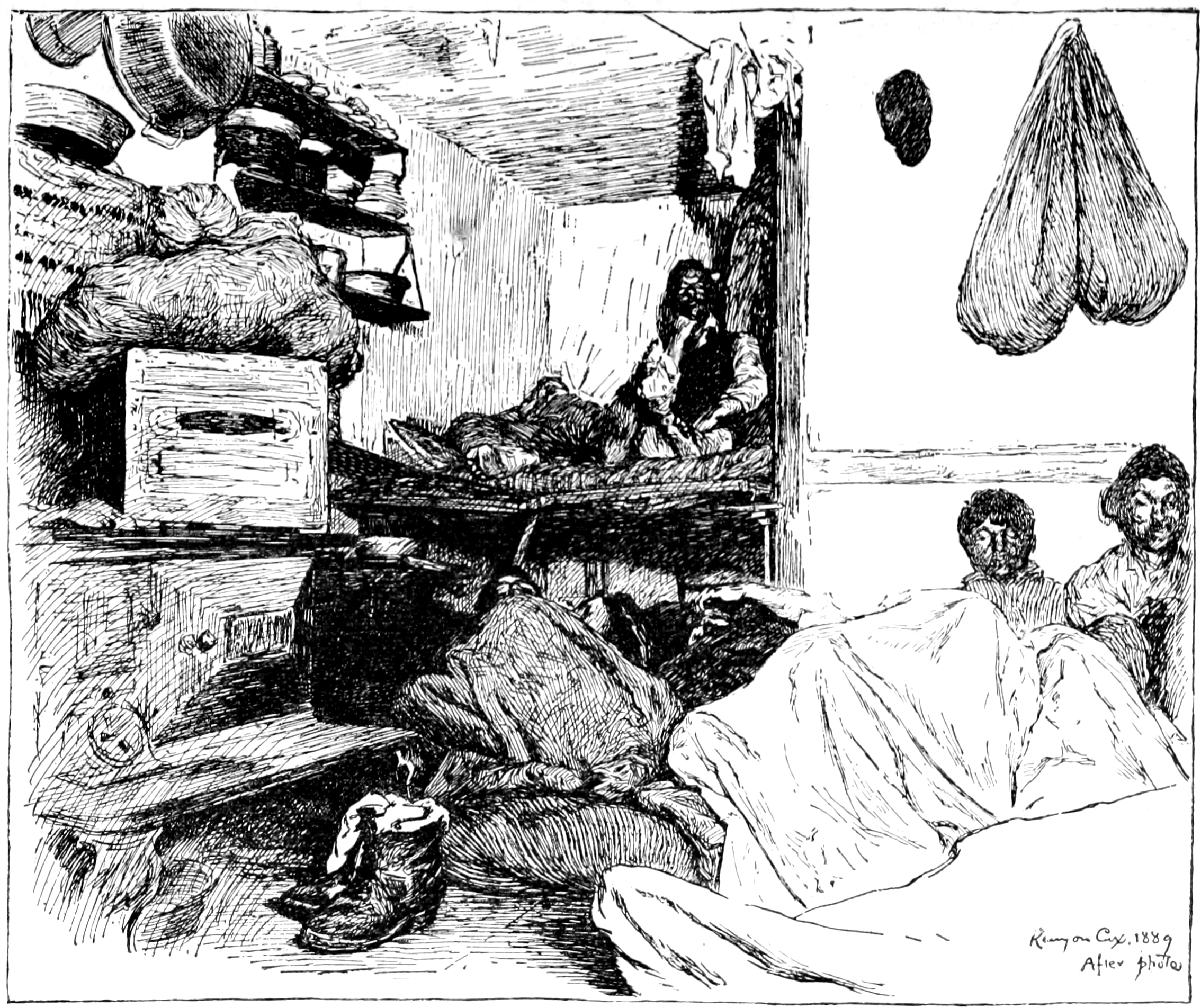 'Lodgers in a Crowded Bayard Street Tenement—"Five Cents a Spot"'